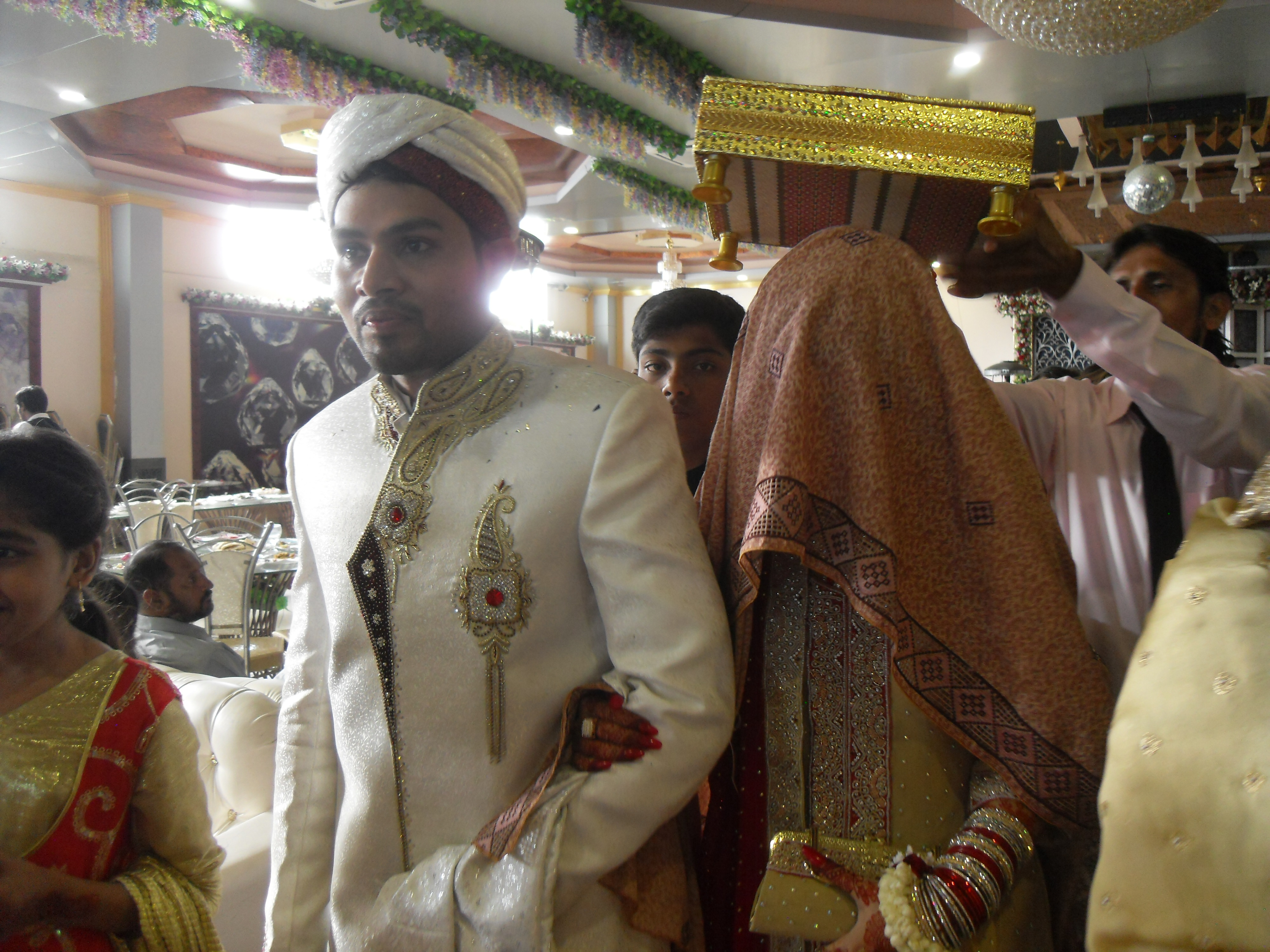 Marriage is an important part of every individual’s life and so is finding the right match. Wedding ceremony is a simple and spiritual event in Islam, requiring a lot of arrangements. Marriage in Islam is about establishing a healthy family environment by welcoming the challenges and responsibilities that come with this relationship.